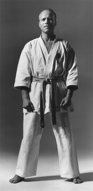 Stein Rønning, world Champion Karate